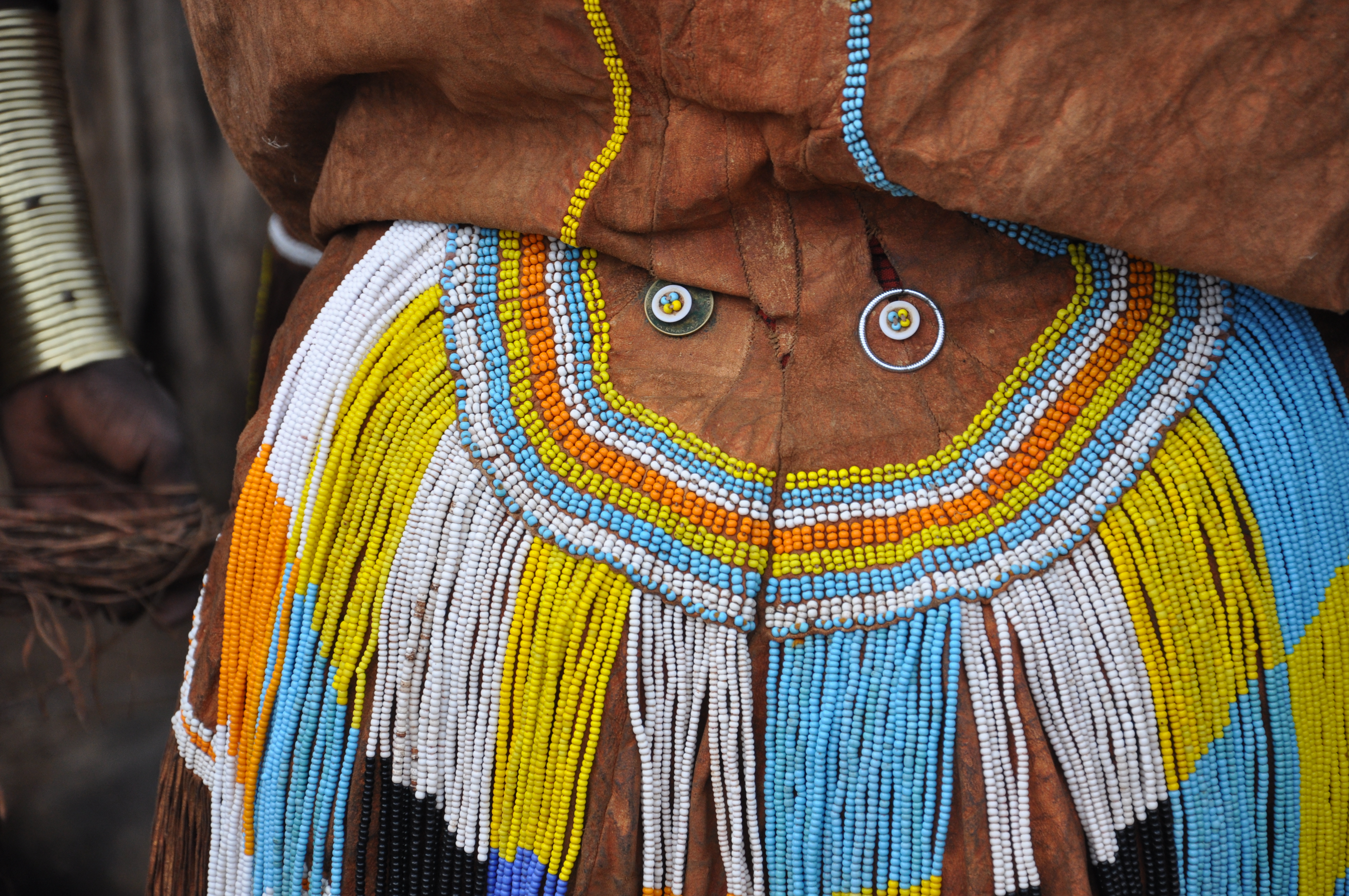 Beadwork on Ceremonial Dress of Datoga Woman, Tanzania